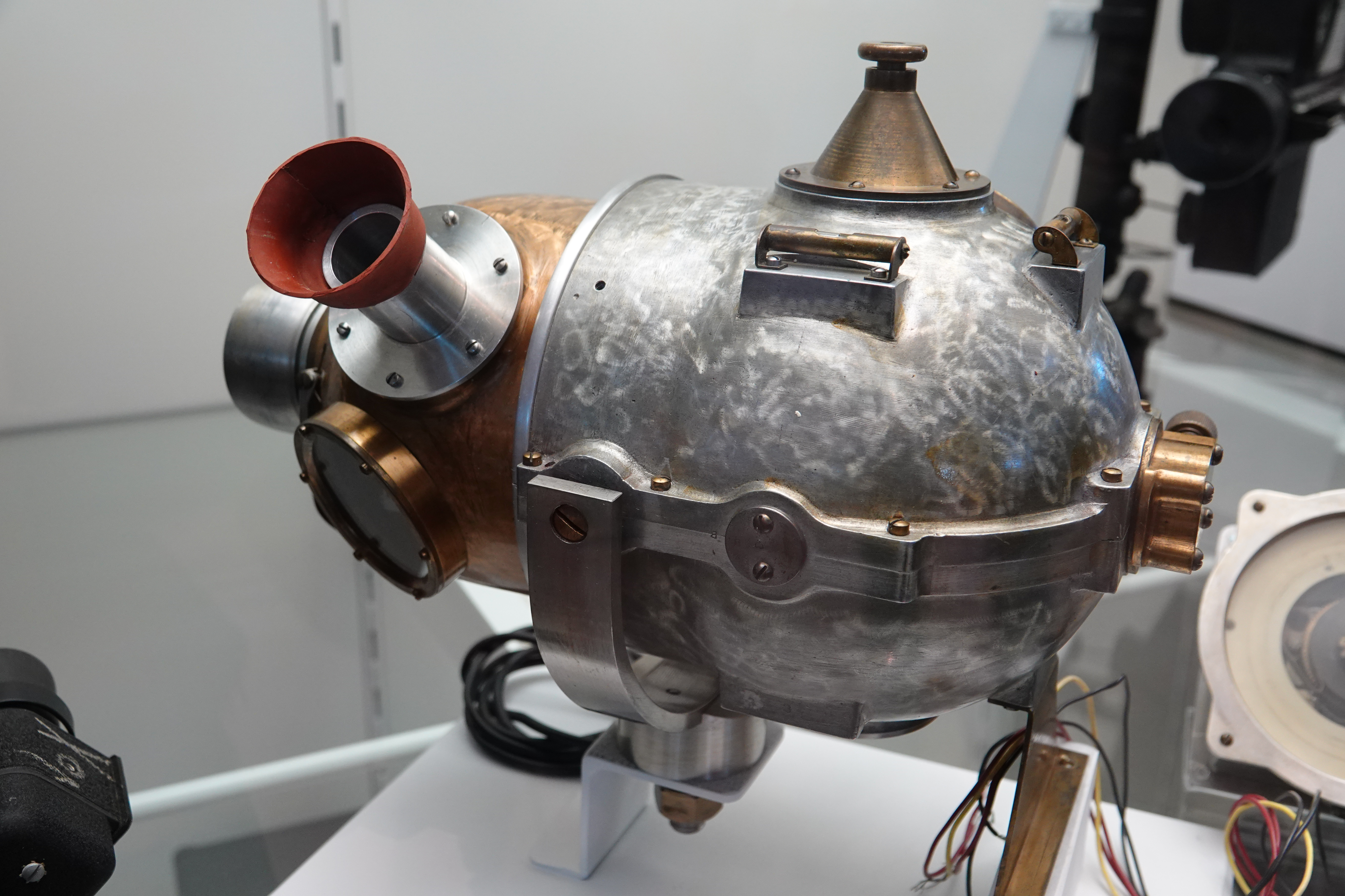 This is the ﬁrst example of the Norden series of bombsights. Carl Norden constructed it in 1923 to replace the Navy Mark III pilot-directing bombsight. The Mark XI entered service in 1929. An improved version, the Mark XV of 1930, became the famed Norden of World War II. Picture taken at the National Air and Space Museum's Steven F. Udvar-Hazy Center in Chantilly, Virginia, USA.